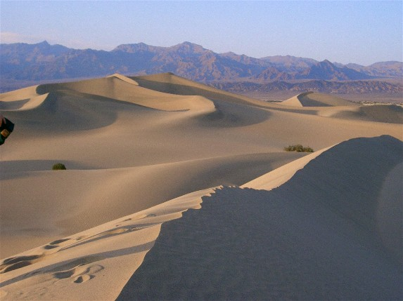 Transferred from fr.wikipedia to Commons by Maksim. The original description page was here. All following user names refer to fr.wikipedia.